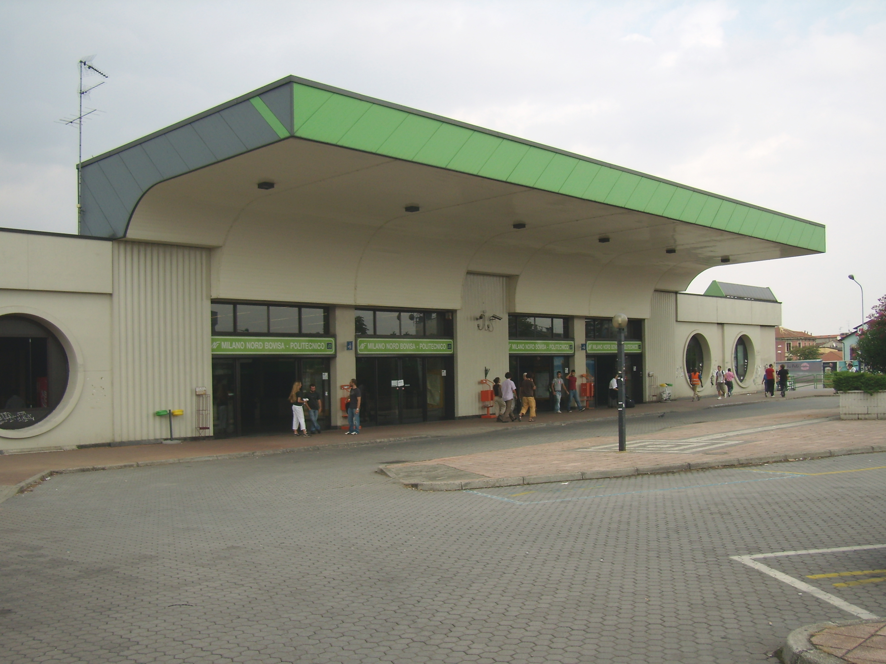 Milano Nord Bovisa railway station.